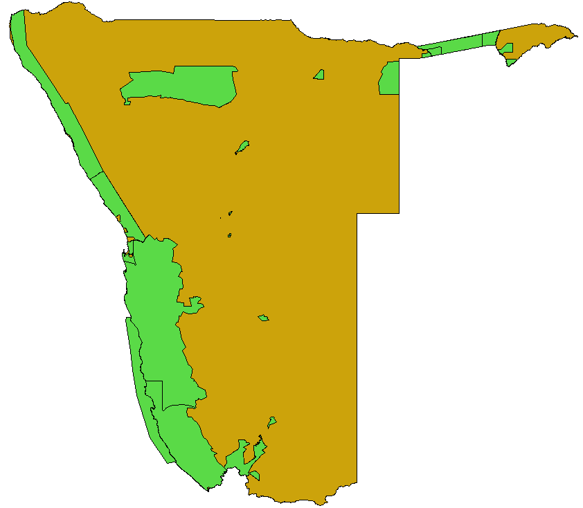 State Protected Areas in Namibia in 2011 based on data of "Environment Information Service Namibia" ( and produced with "Quantum GIS" software.